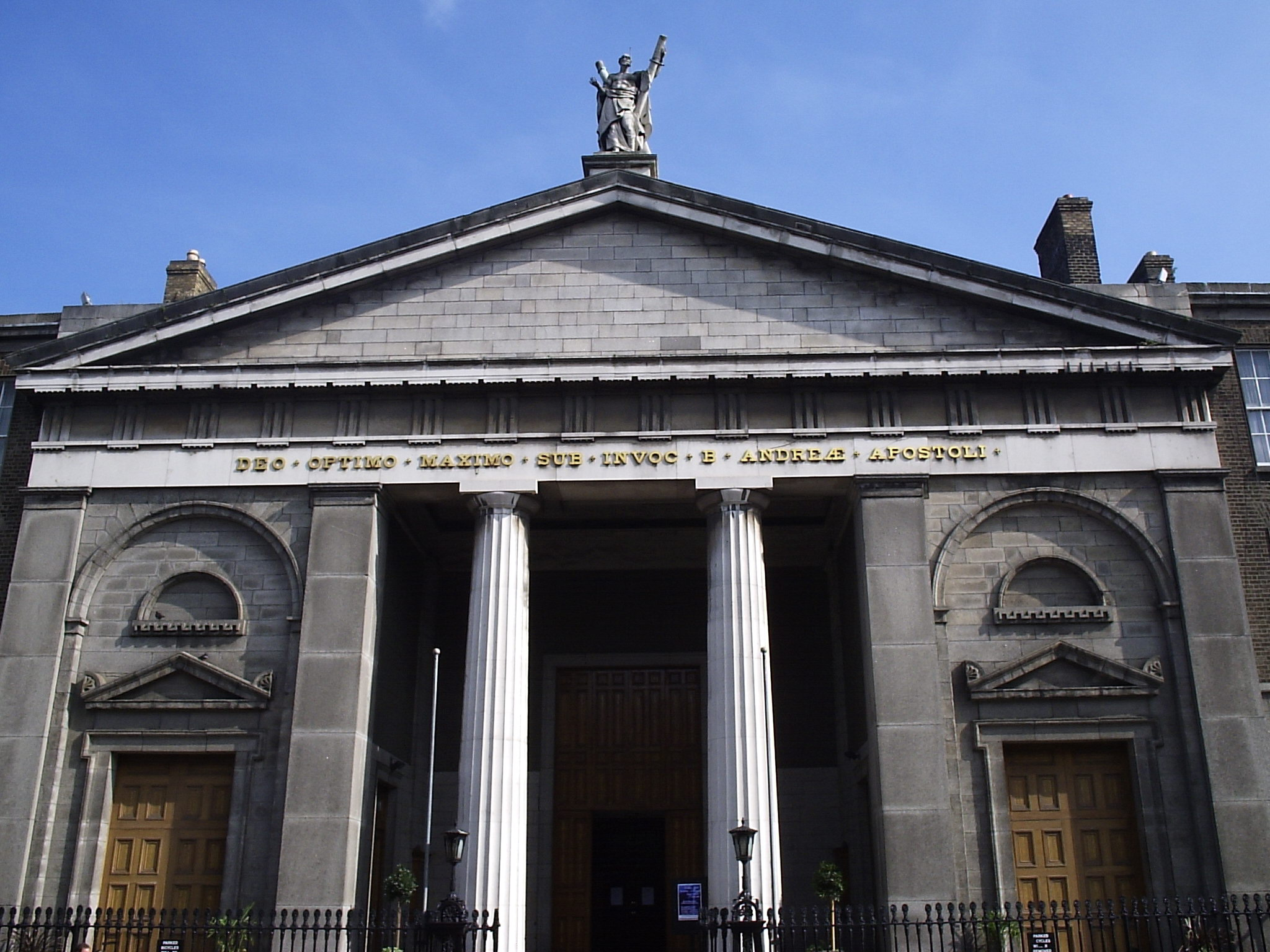 St Andrew's church aka All Hallow's church in Westland Row, Dublin